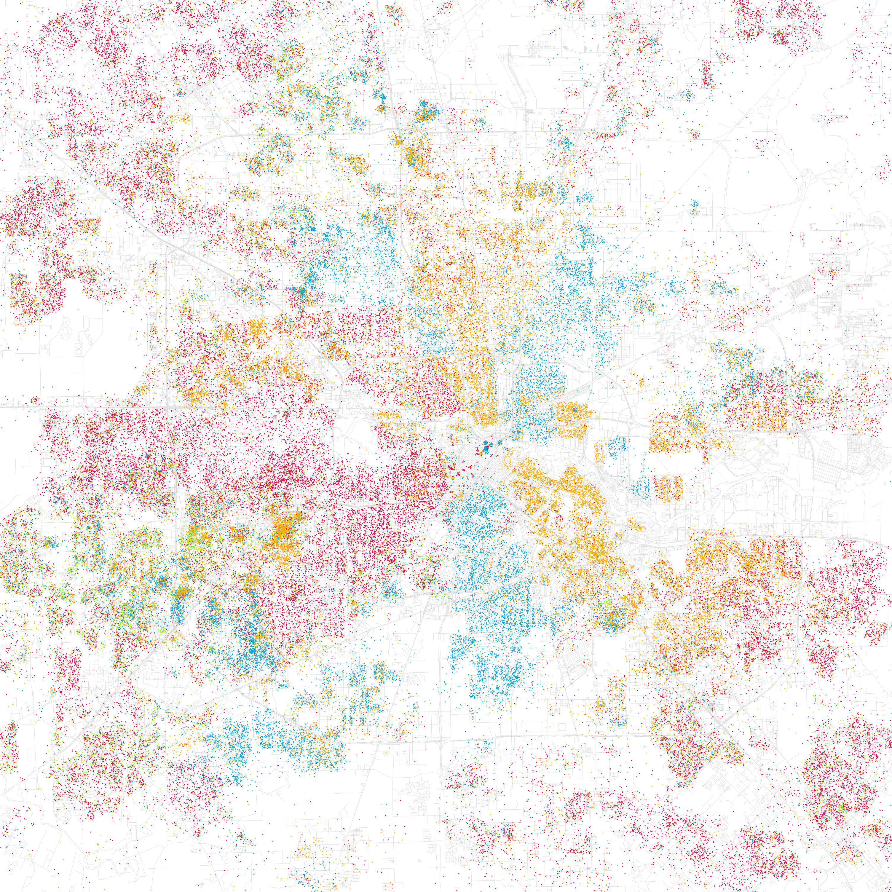 [Eric Fischer] was astounded by Bill Rankin's map of Chicago's racial and ethnic divides and wanted to see what other cities looked like mapped the same way. White Black Asian Hispanic Other To match his map, Red is White, Blue is Black, Green is Asian, Orange is Hispanic, Gray is Other, and each dot is 25 people. Data from Census 2000. Base map © OpenStreetMap, CC-BY-SA